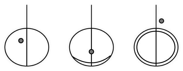 A few known and documented variations of water glyphs. Note the variations in circle style and dot location.